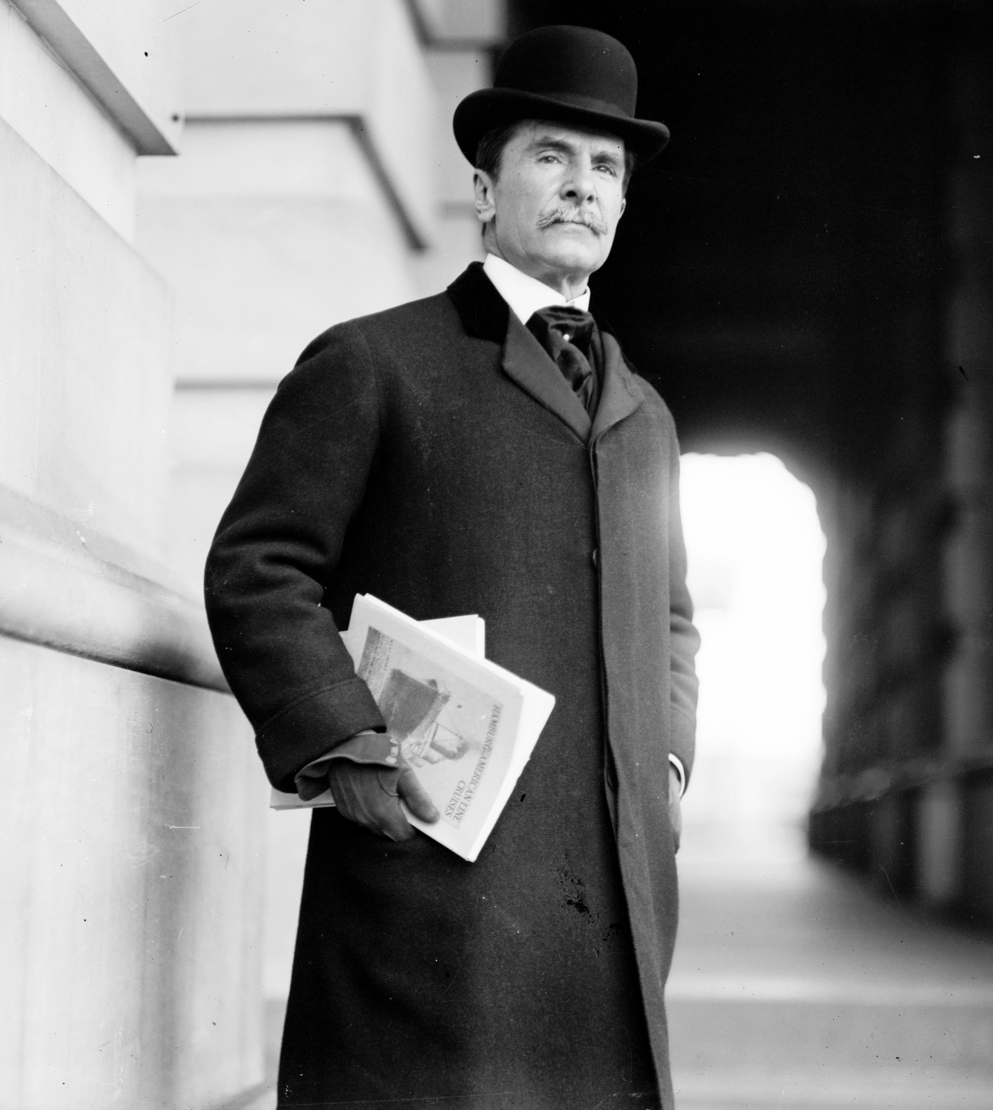 Bain News Service,, publisher. Perry Belmont circa 1913 [no date recorded on caption card] 1 negative : glass ; 5 x 7 in. or smaller. Notes: Title from unverified data provided by the Bain News Service on the negatives or caption cards. Forms part of: George Grantham Bain Collection (Library of Congress). Format: Glass negatives. Repository: Library of Congress, Prints and Photographs Division, Washington, D.C. 20540 USA, General information about the Bain Collection is available at Persistent URL: Call Number: LC-B2- 2689-1